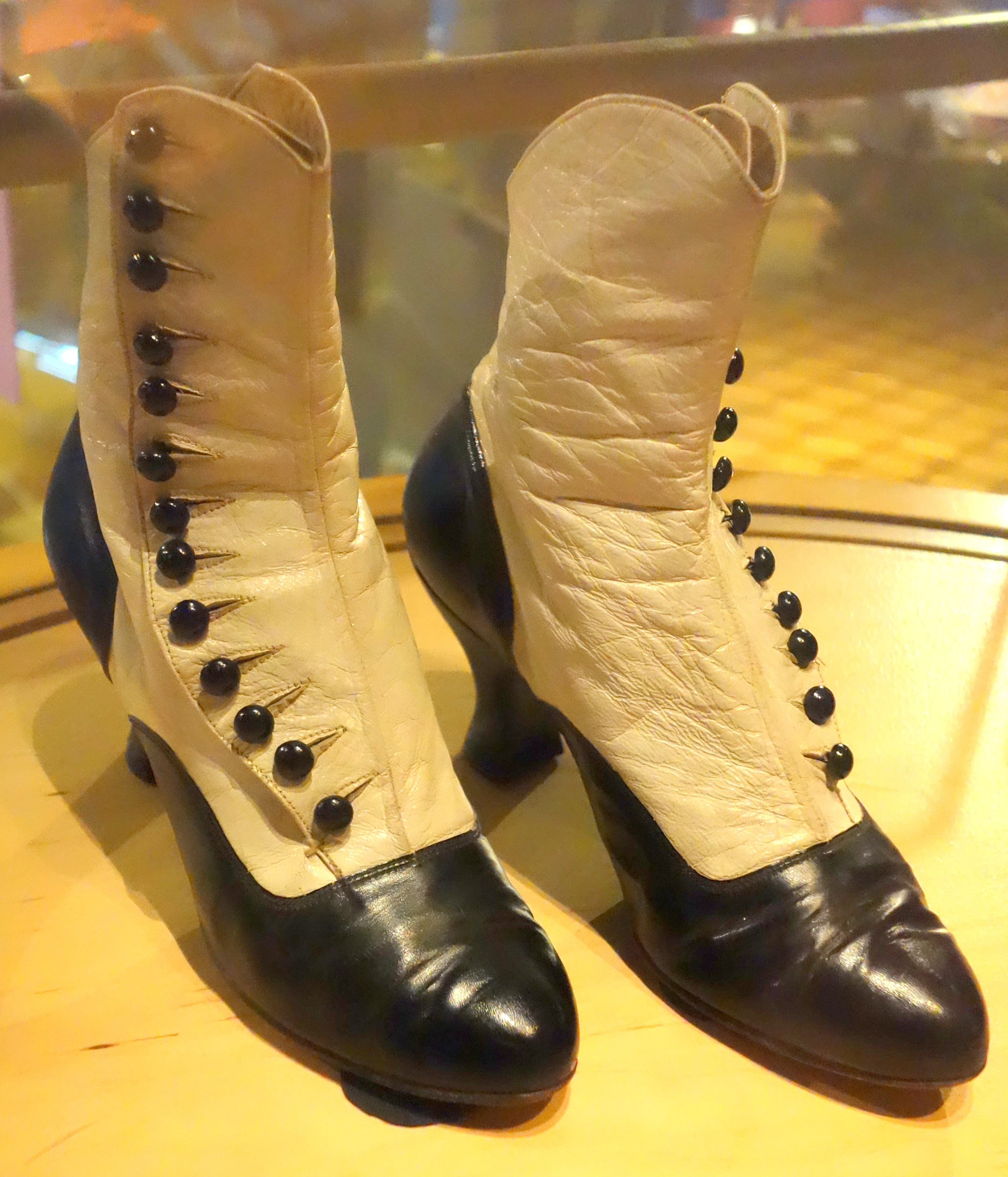 Exhibit in the Bata Shoe Museum, Toronto, Ontario, Canada. The museum permitted photography without restriction.